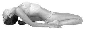 Matsyásana - Yôga position